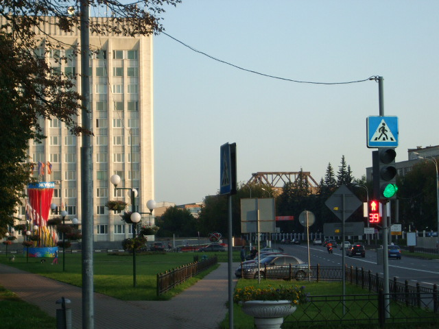 Svishchyov Square (near TsAGI), Zhukovskiy city of Moscow Region